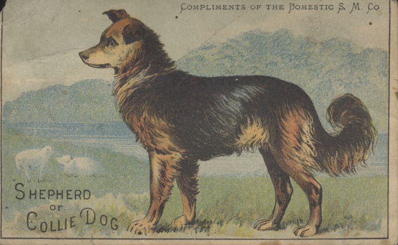 Persistent URL: Subject (TGM): Dogs; Sheep; Animals; Country life; Sewing equipment & supplies; Sewing machines; Sewing machine industry